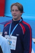 Victory lap of the 100 m butterfly during the 2005 FINA World Championships in Montréal. The swimmers are Andriy Serdinov (bronze medallist, left side), Ian Crocker (gold) and Michael Phelps (silver).